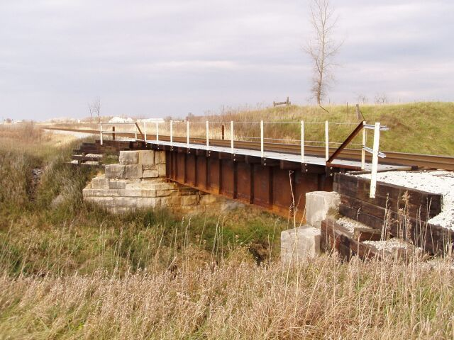 Historic Monon Line in White County, Indiana